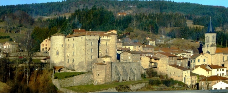 Chalmazel